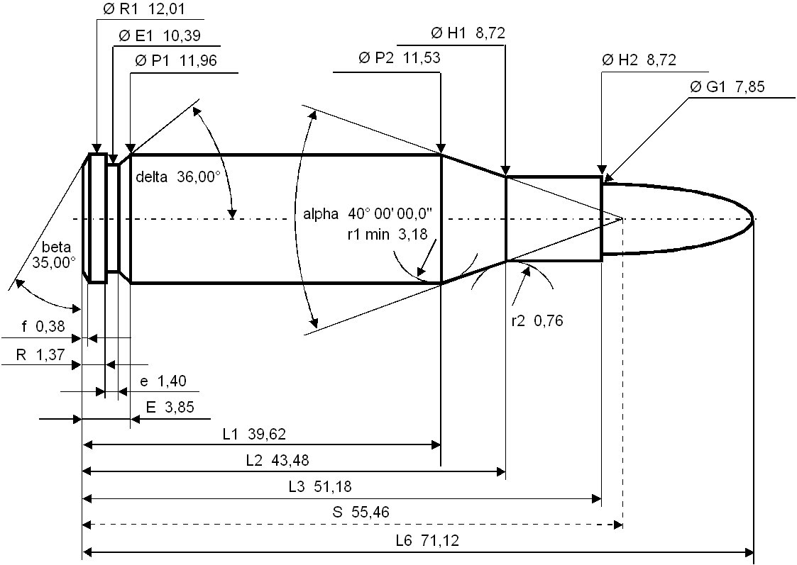 .308 Winchester maximum C.I.P. cartridge dimensions. All sizes in millimeters (mm).